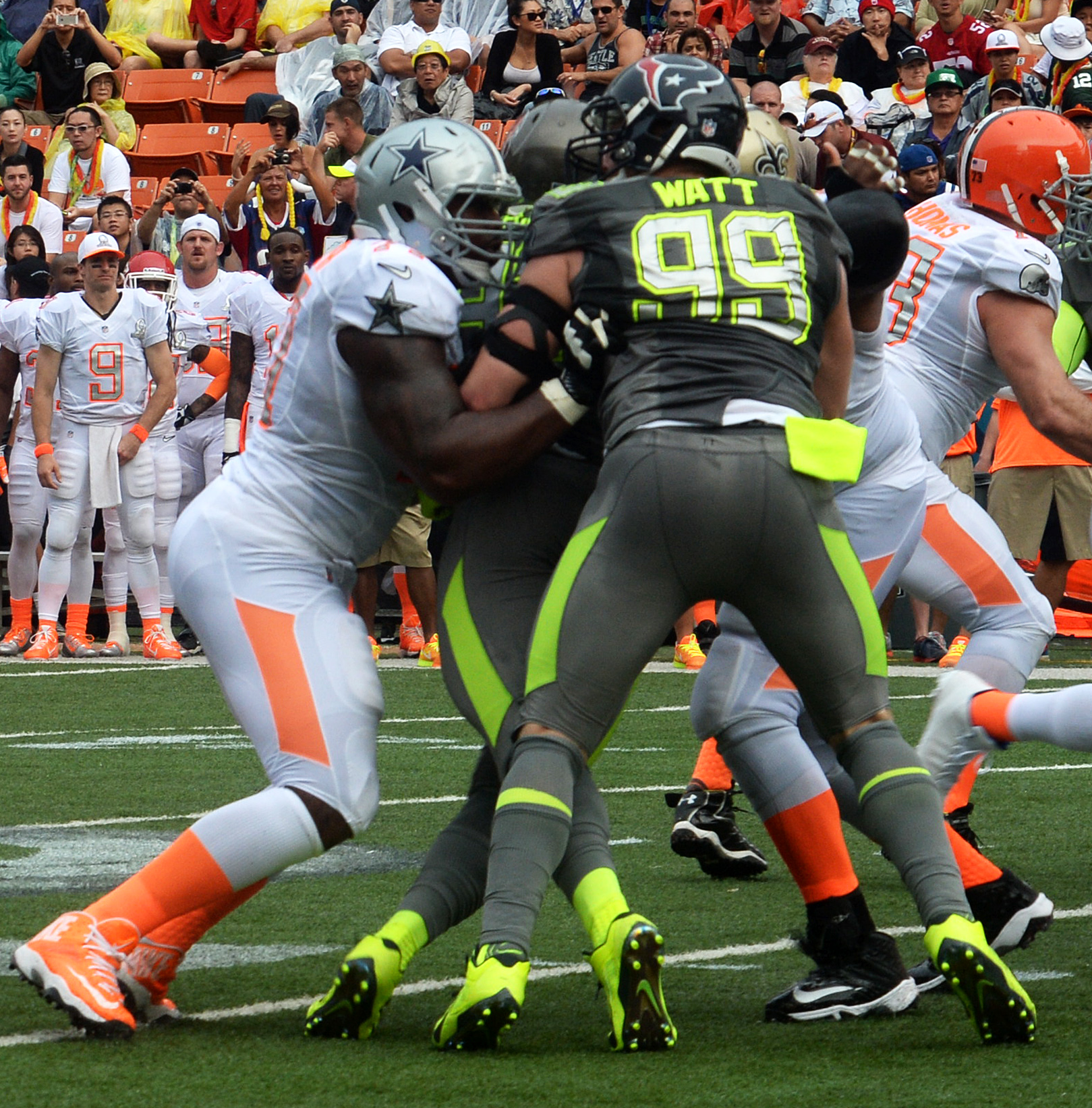 Philip Rivers throwing in the 2014 Pro Bowl.